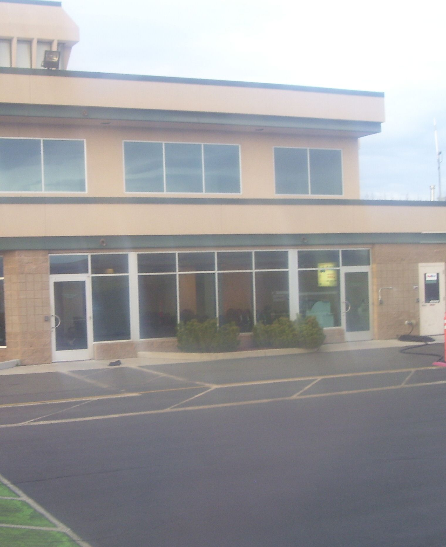 I (Rdore) took this photo.